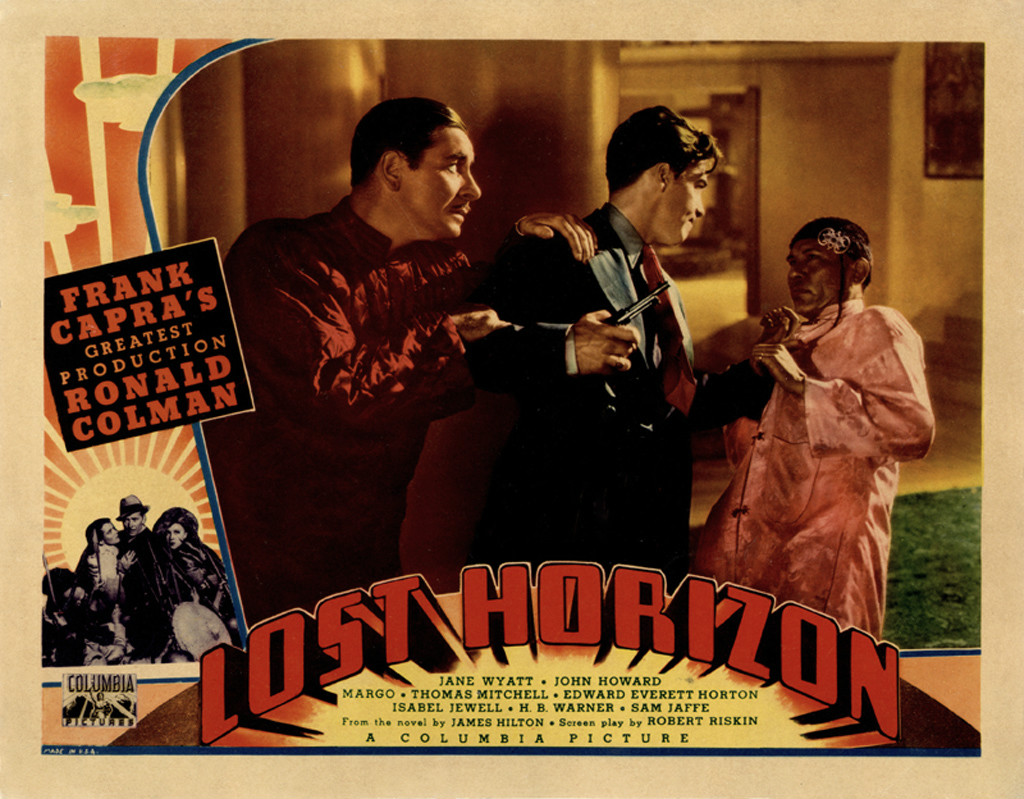 Lobby card from the 1937 film Lost Horizon.